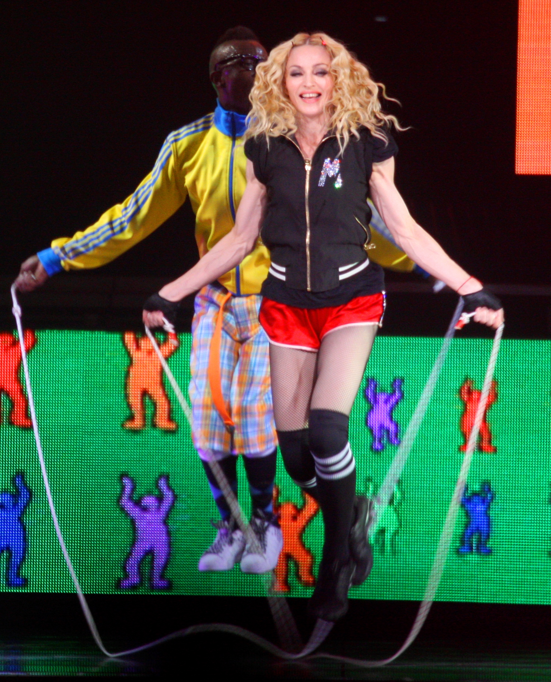 into the groove double dutch jump rope